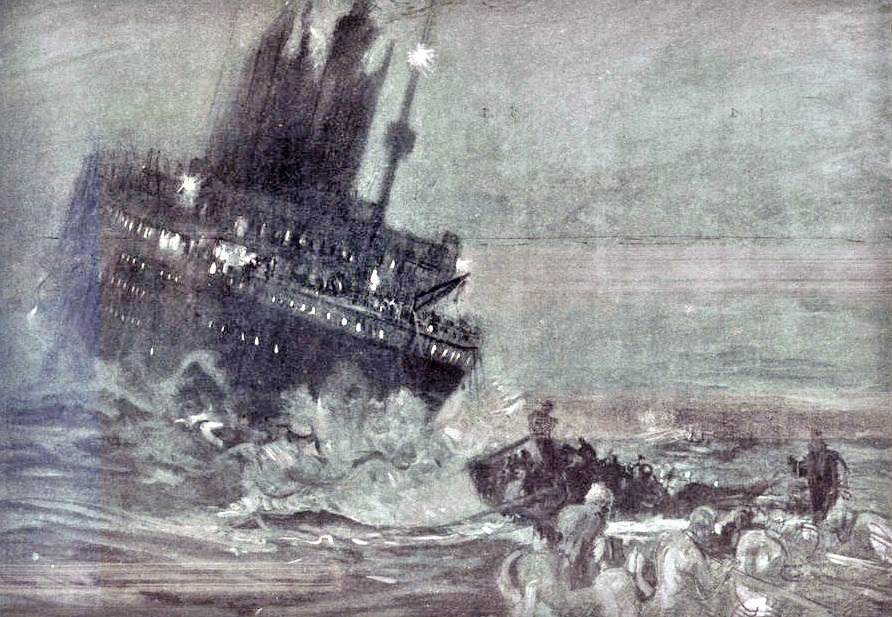 drawn from wireless description